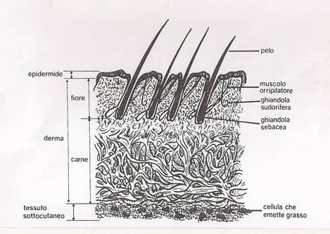 diagram of a section of raw cowhide